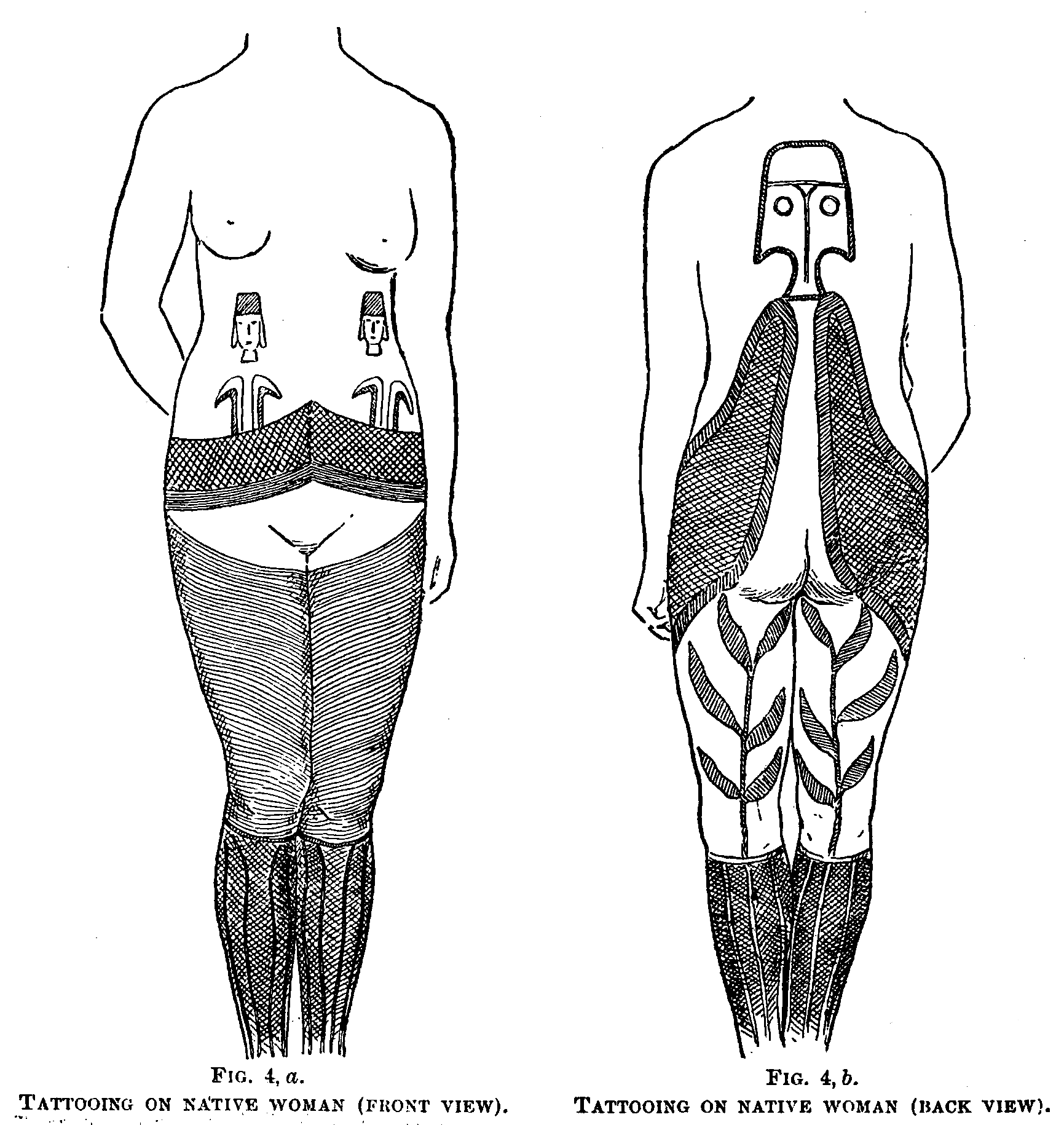 Tattooing on native woman, Easter Island. Original sketch probably dated to Thomson's visit on the USS Mohican in December 1886.